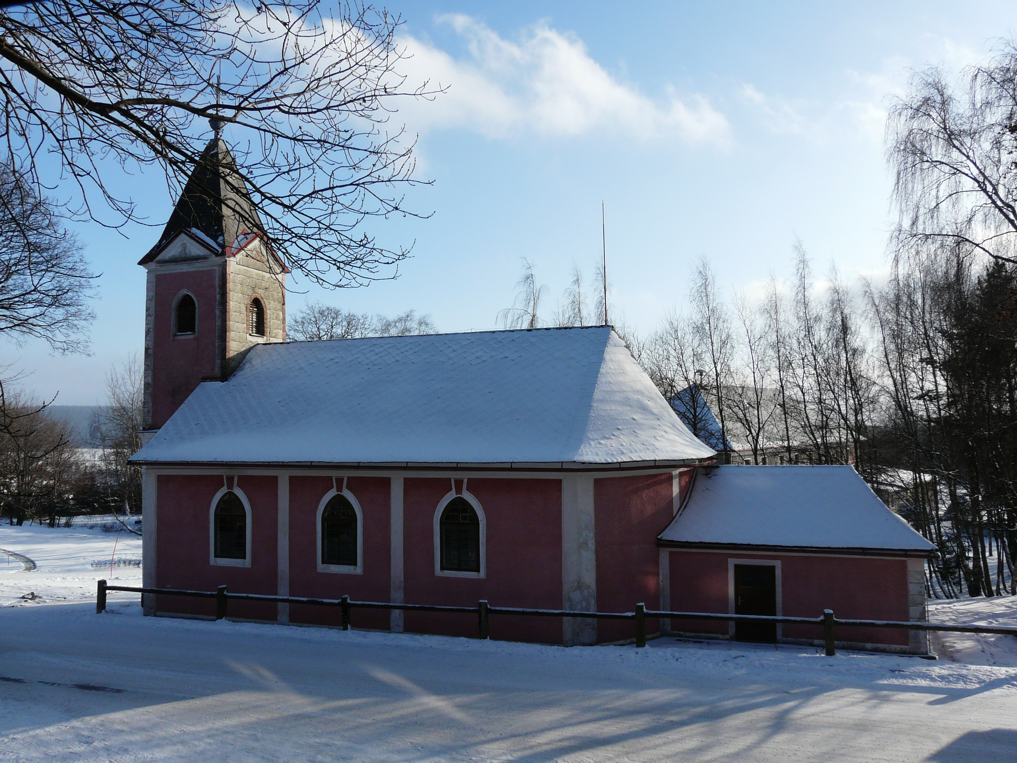 Church in village Nove Hute/Sumava